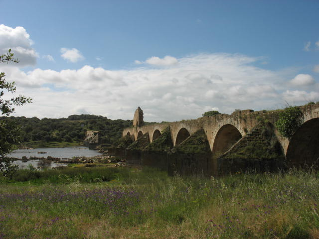 16th century Ajuda bridge ruins, on the Guadiana river (Spain - Portugal)